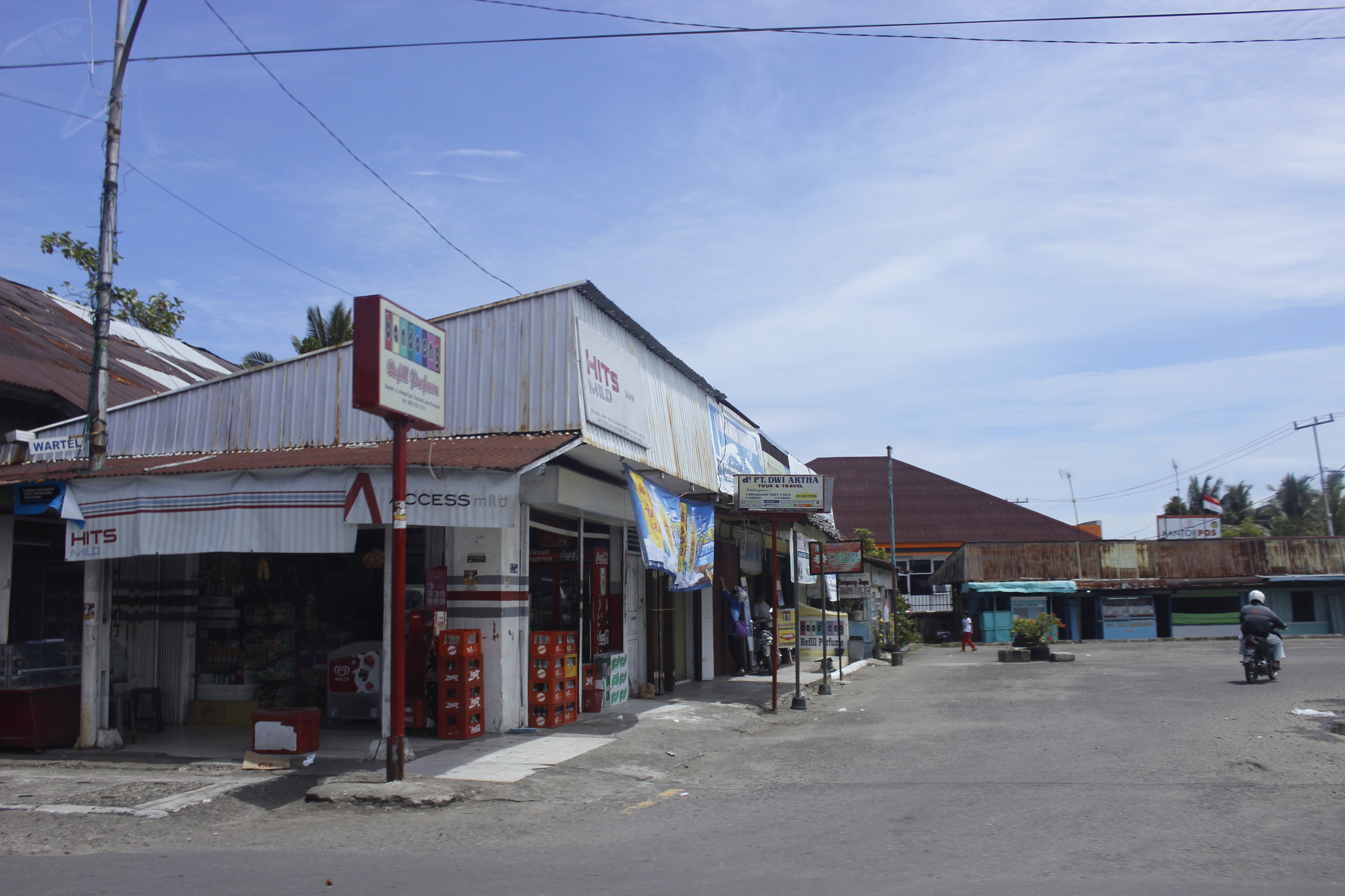 The old terminal in city of Pariaman, West Sumatra.